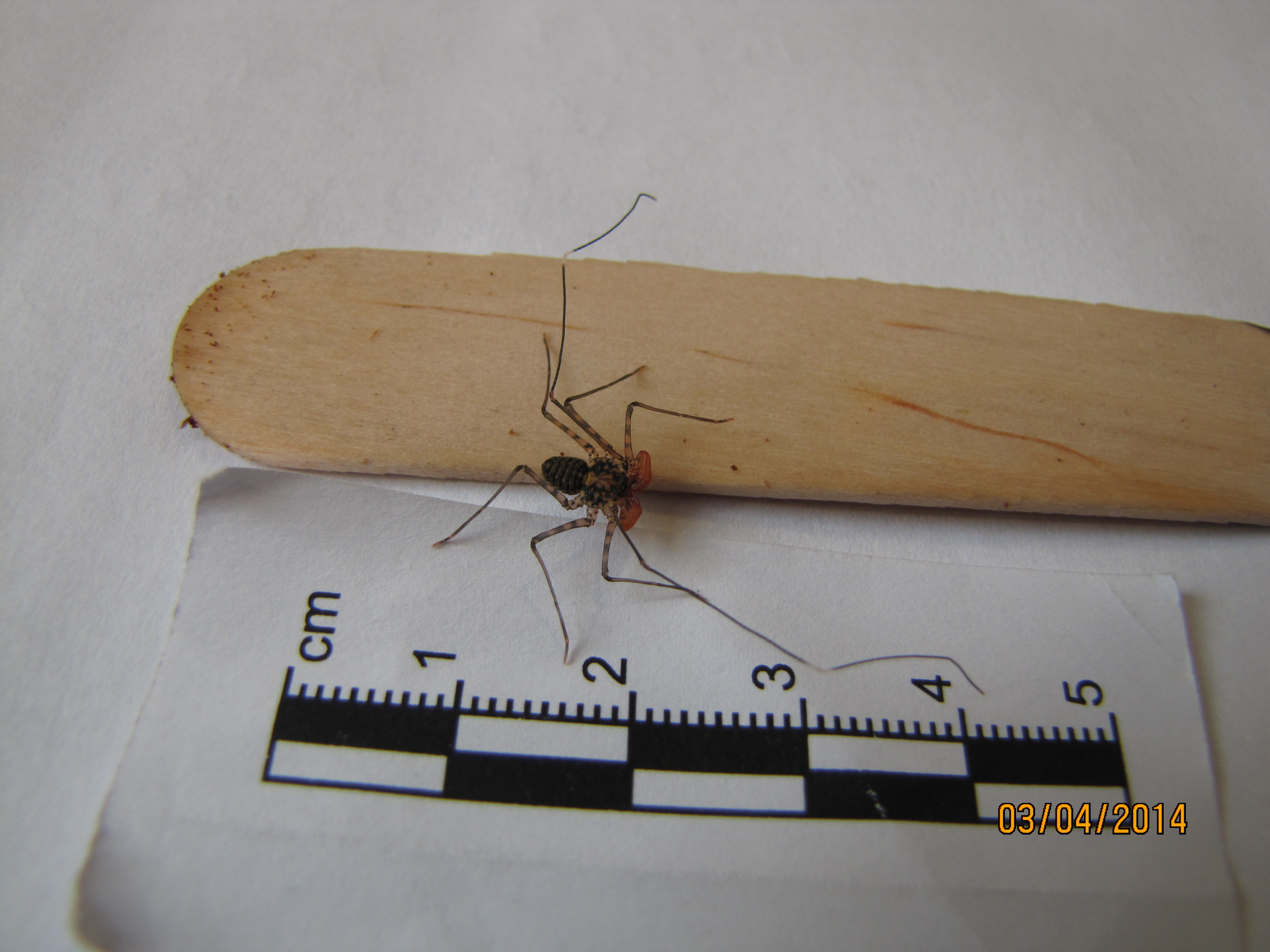 Damon diadema